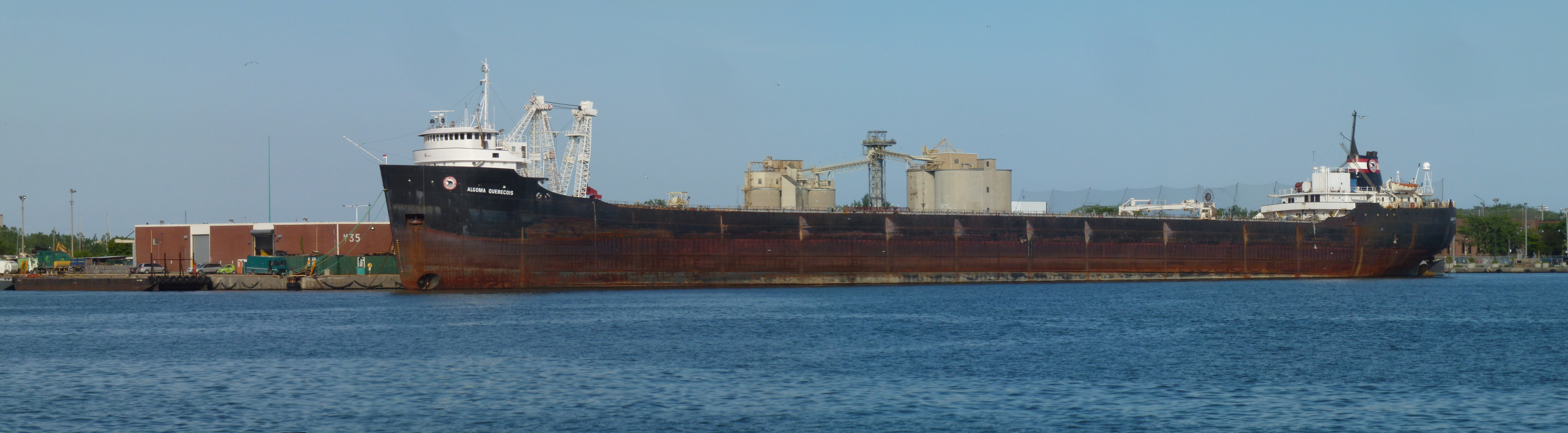 The Algoma Quebecois moored in Toronto on 20 June 2013